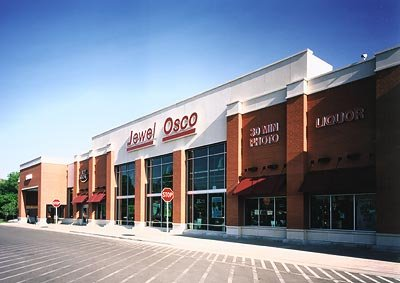 Jewel at 2520 N Narragansett Ave, Chicago, IL.